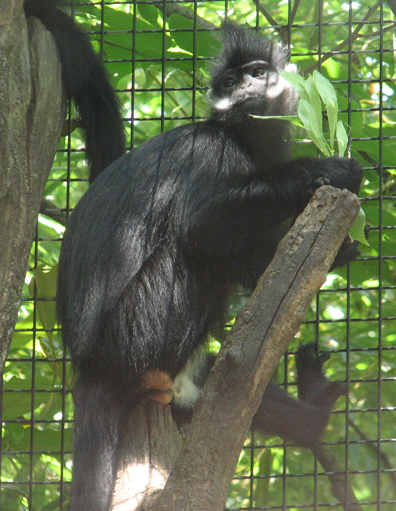 Francois' Langur - Trachypithecus francoisi at Cincinnati Zoo